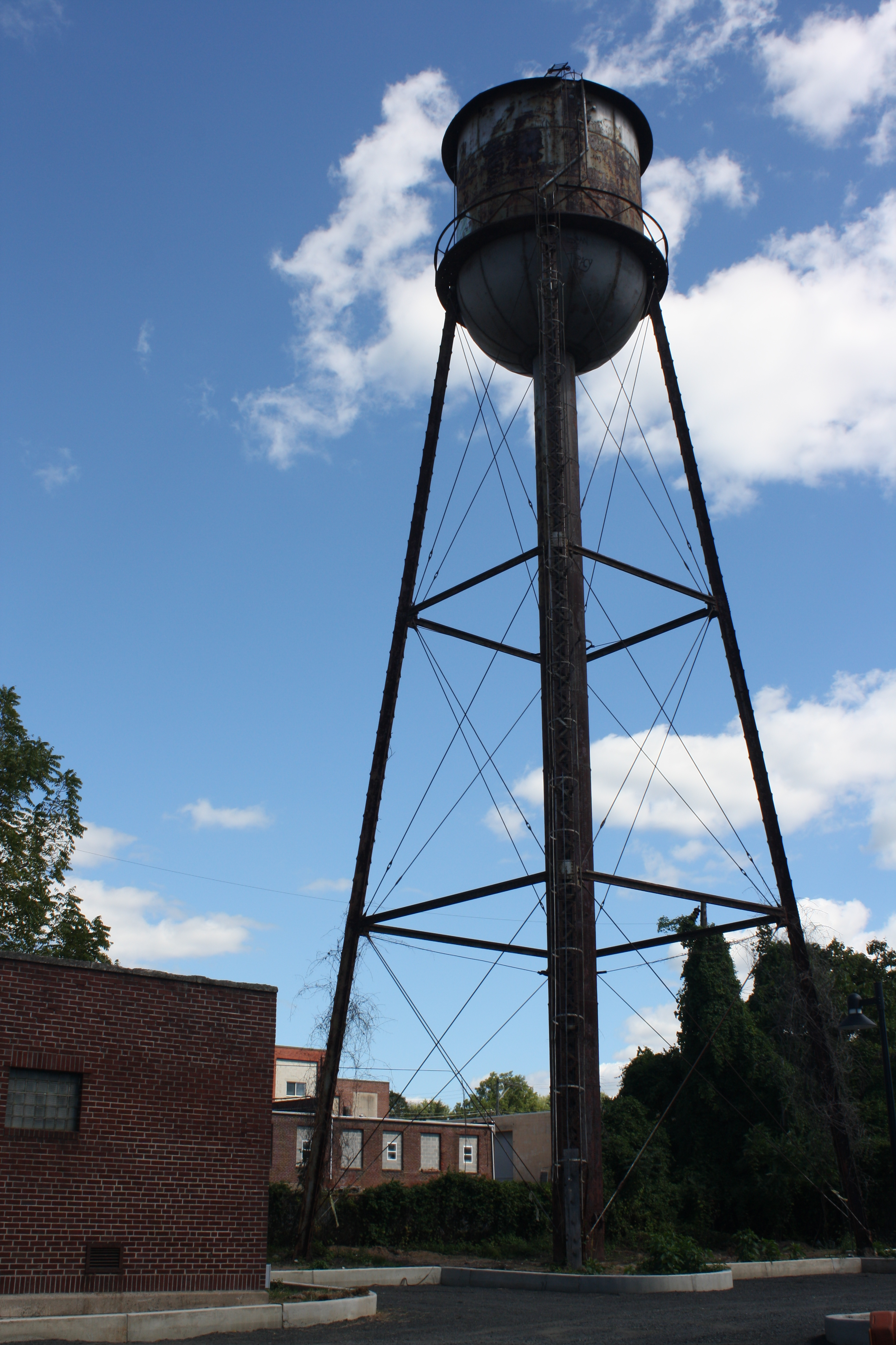 Roberts and Mander Stove Company Buildings Roberts and Mander Stove Company Buildings is a historic factory complex located at Hatboro, Montgomery County, Pennsylvania. Water Tank and Transformer House (c. 1925).